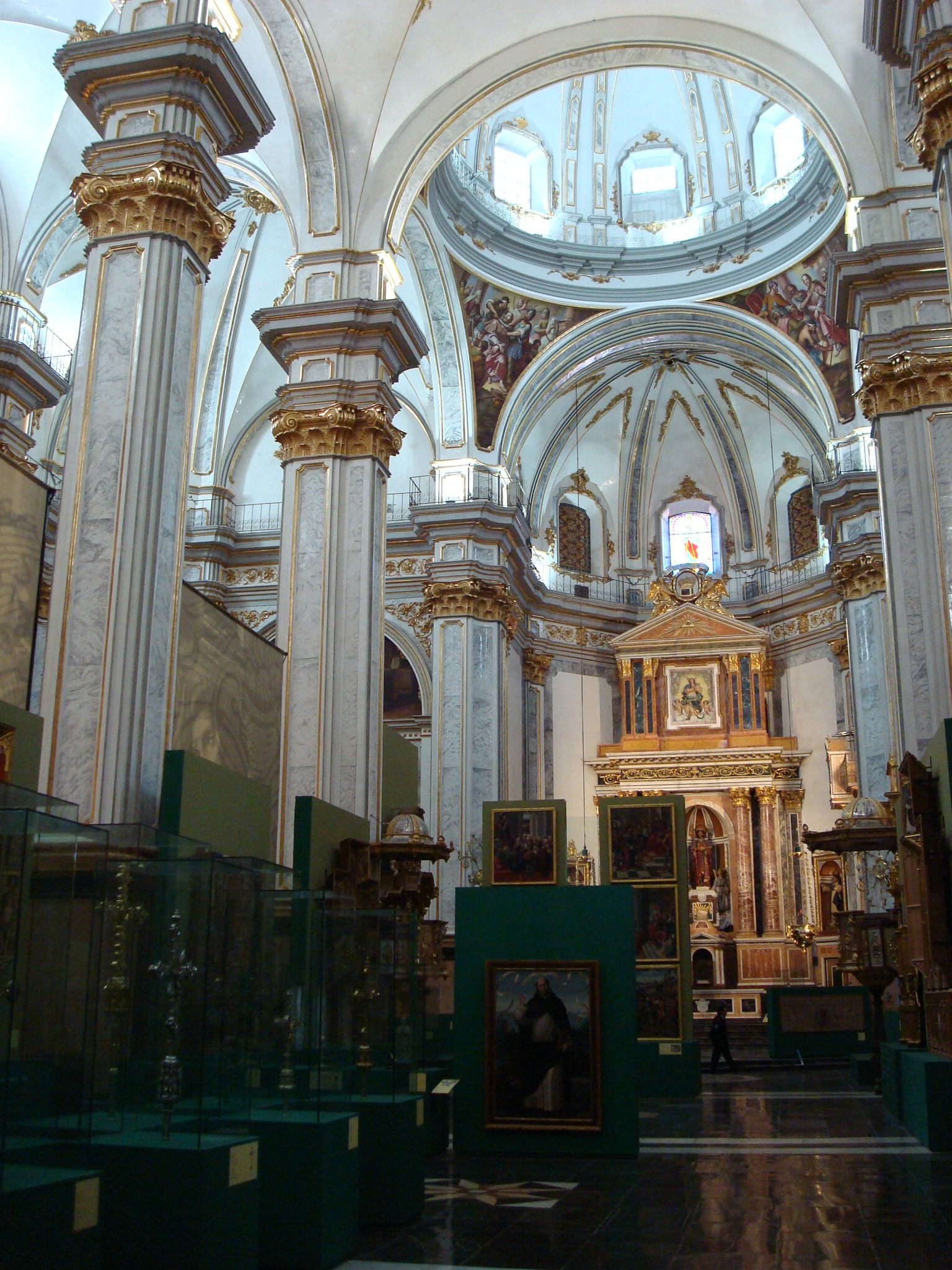 Interior of the arciprestal church of St. James in Vila-real (Castellón, Spain).